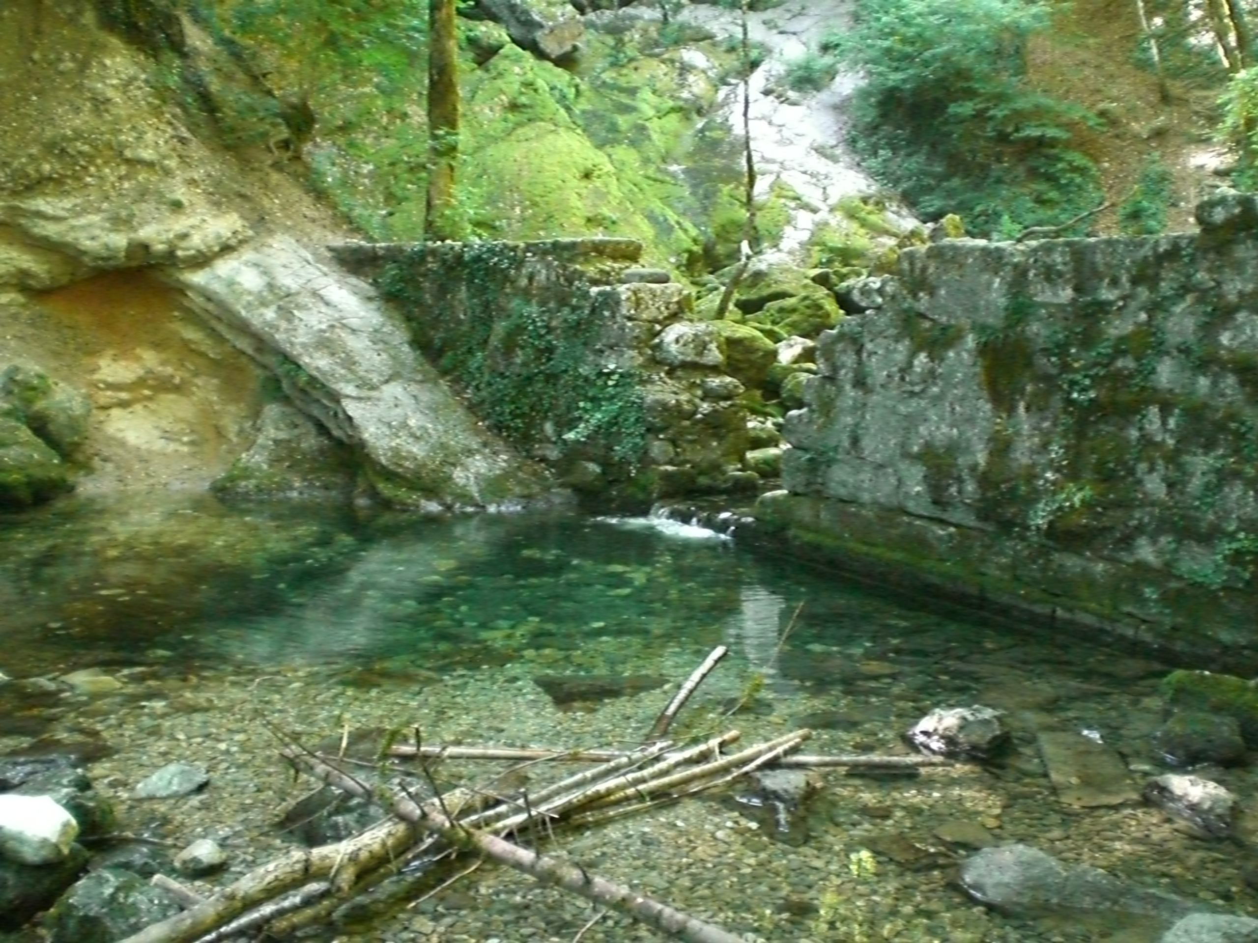 source of allondon in Echenevex or Crozet